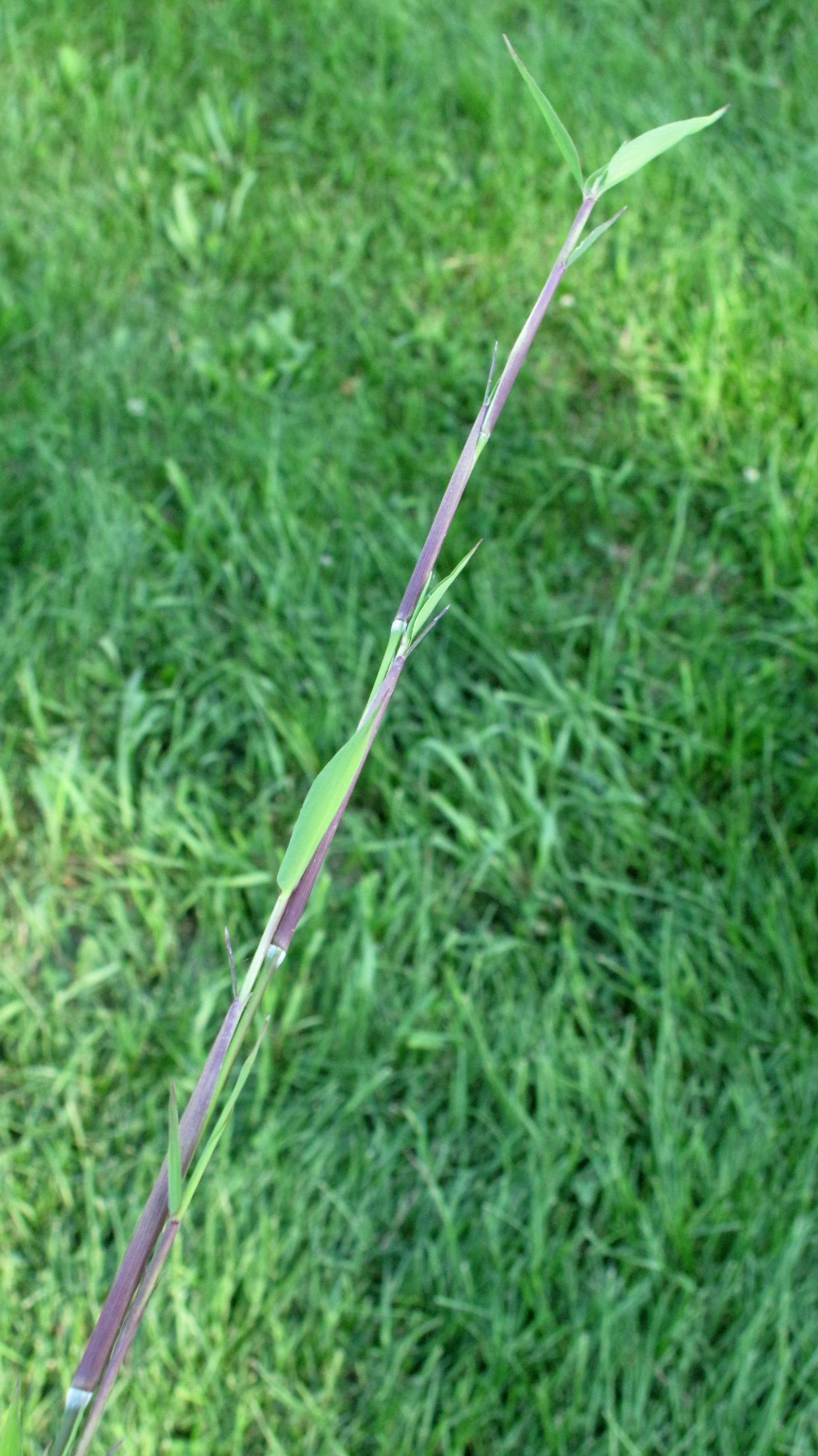 tip of a new bamboo culm, phyllostachys parvifolia, two year old division